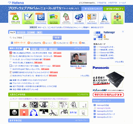 Screen shot of at Dec. 2008.